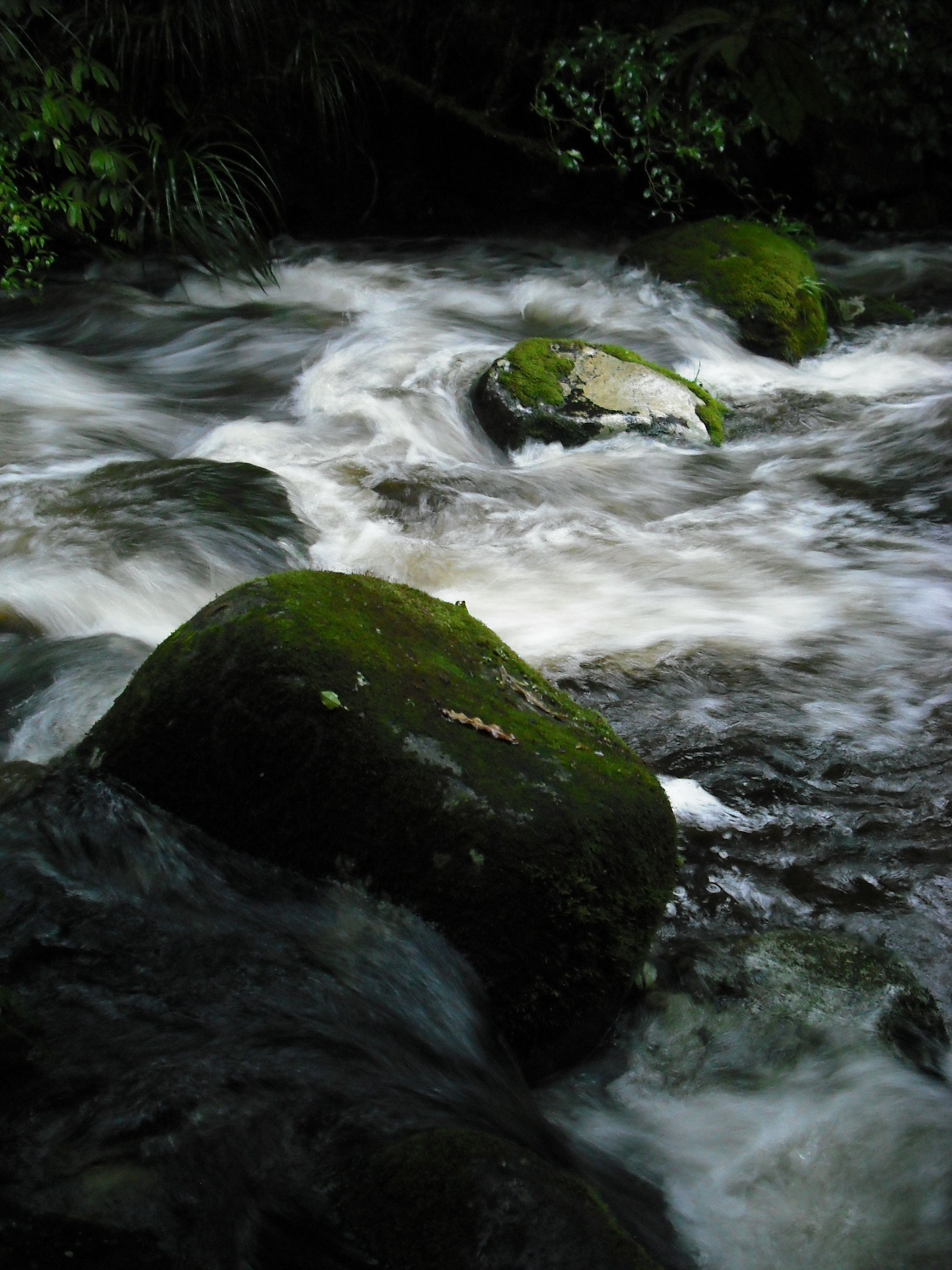 A creek turned river during heavy rain in the forest on Mount Pirongia